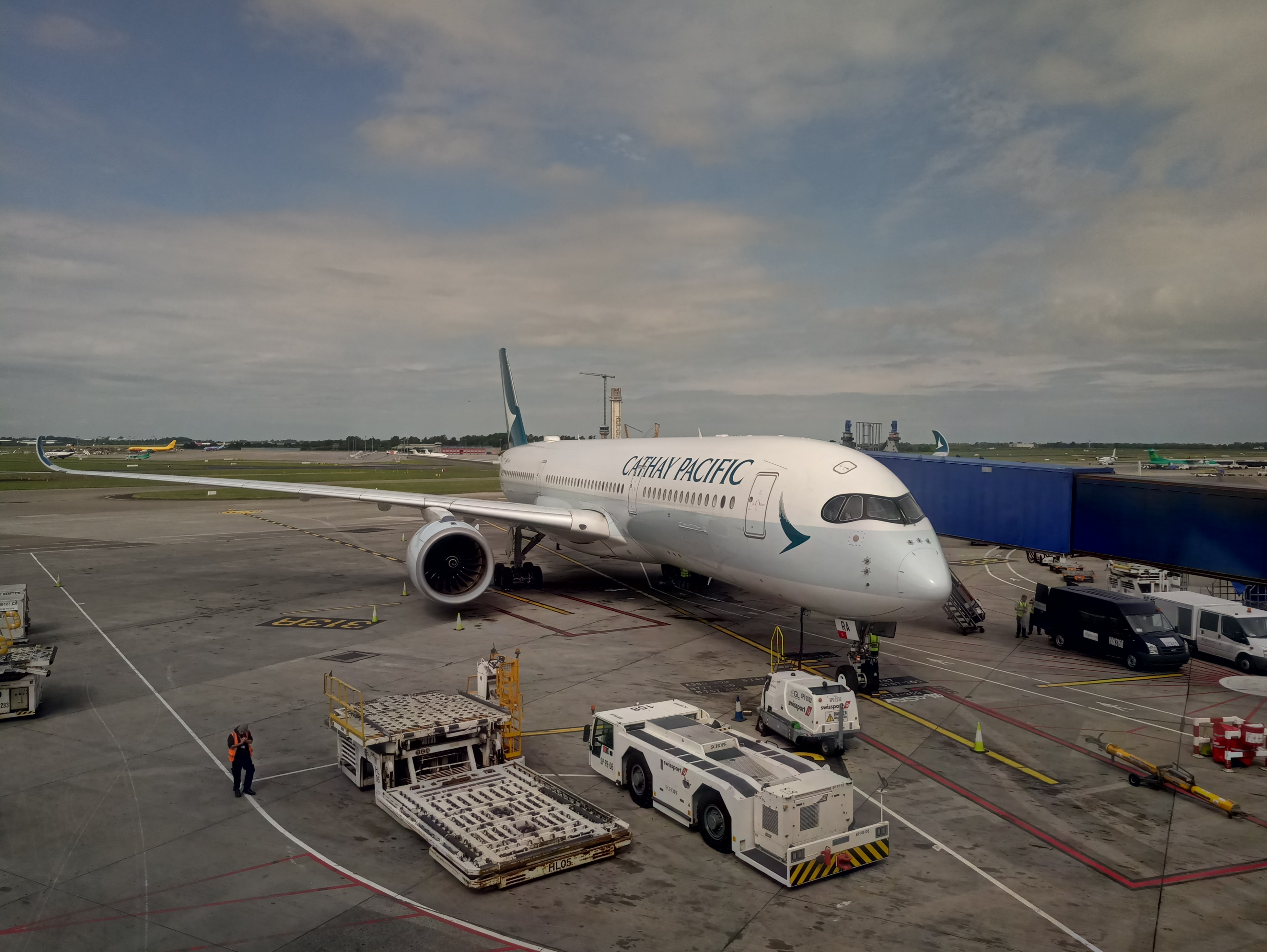 BLRA at Dublin airport on 2018-06-04